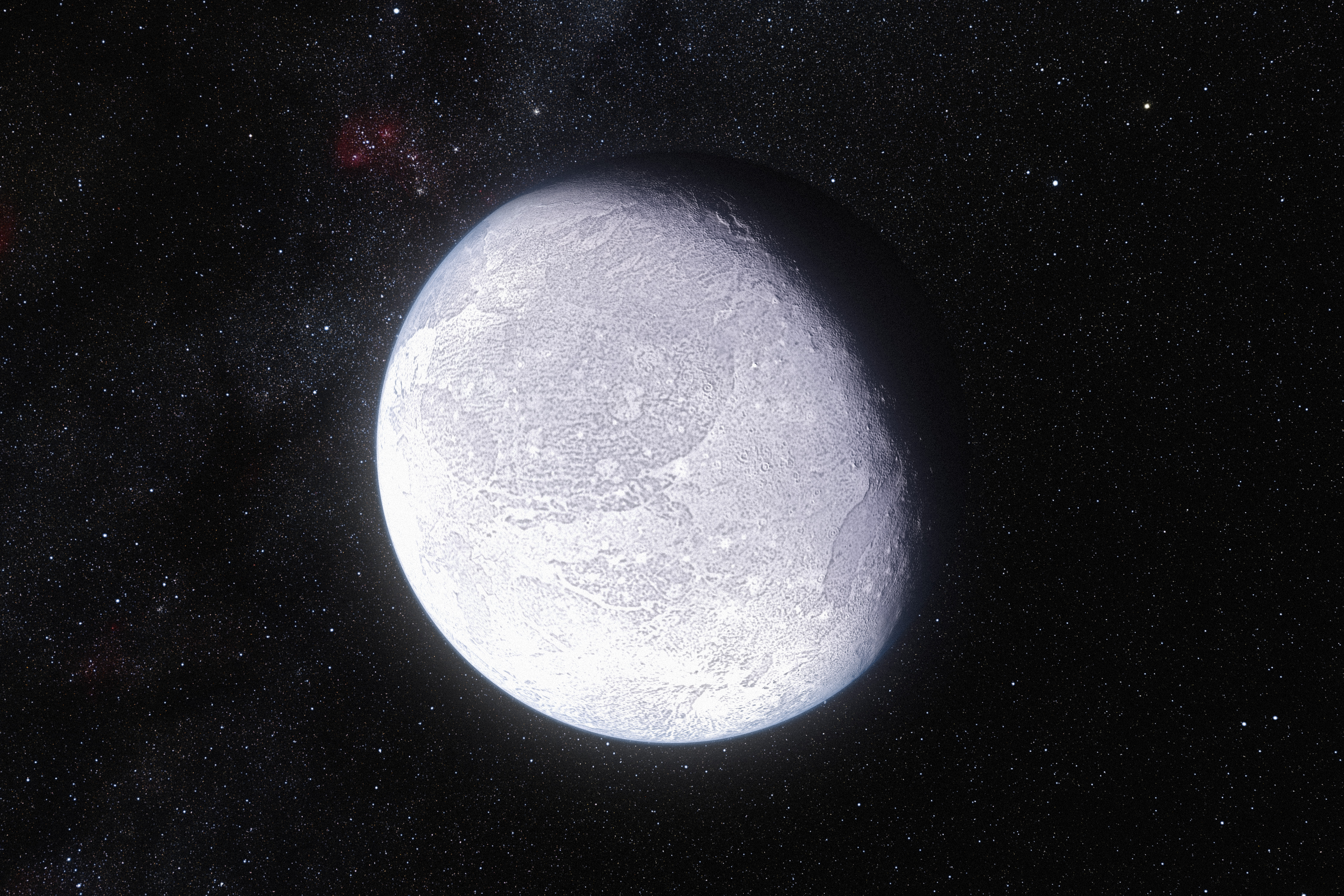 This artist's impression shows the distant dwarf planet Eris. New observations have shown that Eris is smaller than previously thought and almost exactly the same size as Pluto. Eris is extremely reflective and its surface is probably covered in frost formed from the frozen remains of its atmosphere.